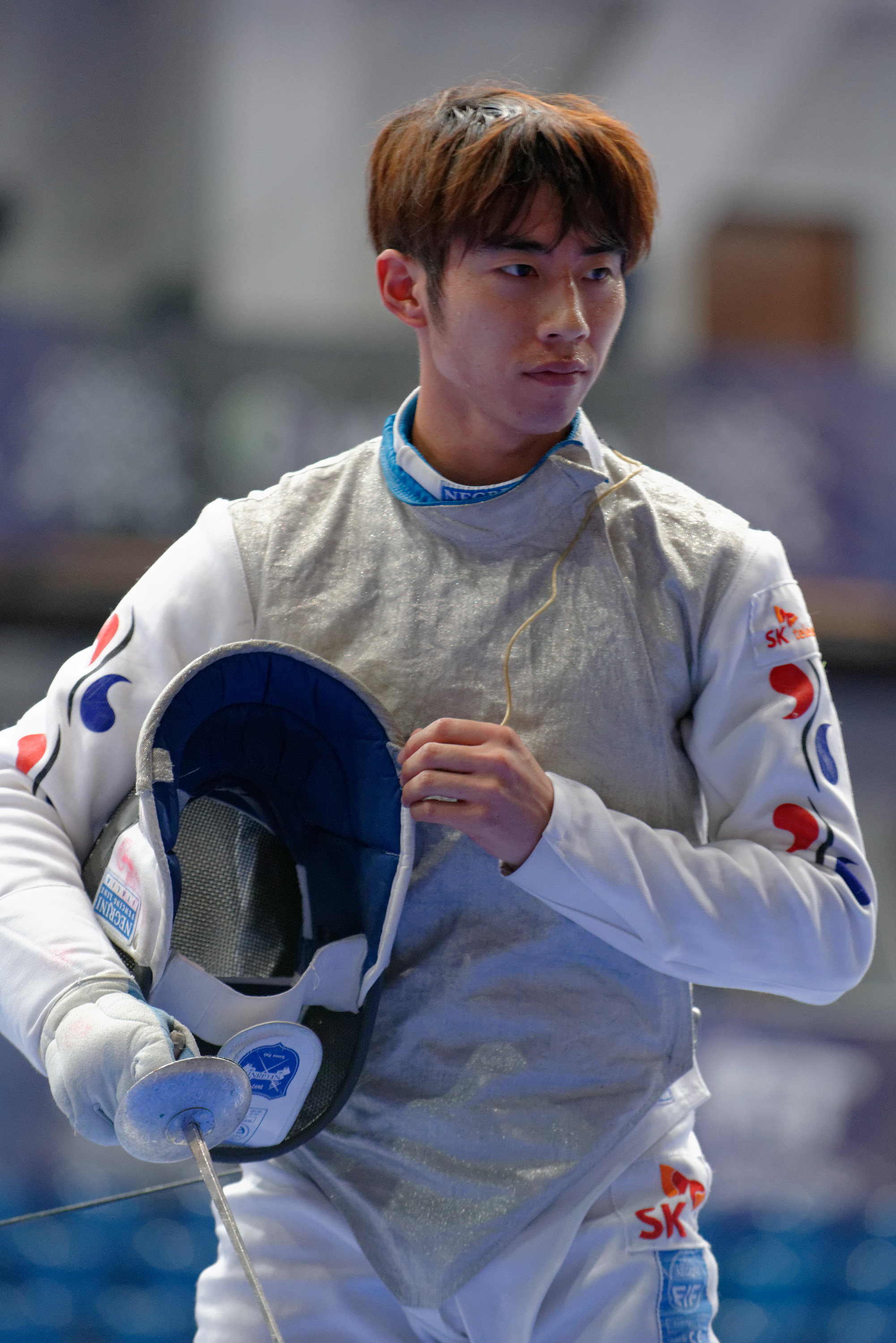 South Korea's Heo Jun at the men's foil event of the 2013 World Fencing Championships 2013 at Syma Hall in Budapest on 9 August 2013.